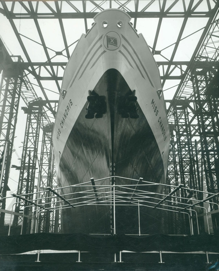 View of the cargo ship ‘Miss Chandris’ ready for launch at the shipyard of William Doxford & Sons, Pallion, 11 March 1959 (TWAM ref. DS.DOX/4/PH/1/830/2/1) Tyne & Wear Archives is proud to present a selection of images from its Sunderland shipbuilding collections. The set has been produced to celebrate Sunderland History Fair on 7 June 2014. It's a reminder of the thousands of vessels launched on the River Wear and the many outstanding achievements of Sunderland’s shipyards and their workers. These photographs reflect Sunderland’s history of innovation in shipbuilding and marine engineering from the development of turret ships in the 1890s through to the design for SD14s in the 1960s. The Sunderland shipbuilding collections are full of fascinating stories. Some of these are represented in this set, such as the ‘Rondefjell’, launched in two halves on the River Wear by John Crown & Sons Ltd and then joined together on the River Tyne. The set also shows the vital part that Sunderland’s shipbuilding industry played during the First World War. William Doxford & Sons Ltd built Royal Naval destroyers such as HMS Opal, which served in the Battle of Jutland, while other yards constructed cargo ships to help keep these shores supplied. (Copyright) We're happy for you to share these digital images within the spirit of The Commons. Please cite 'Tyne & Wear Archives & Museums' when reusing. Certain restrictions on high quality reproductions and commercial use of the original physical version apply though; if you're unsure please